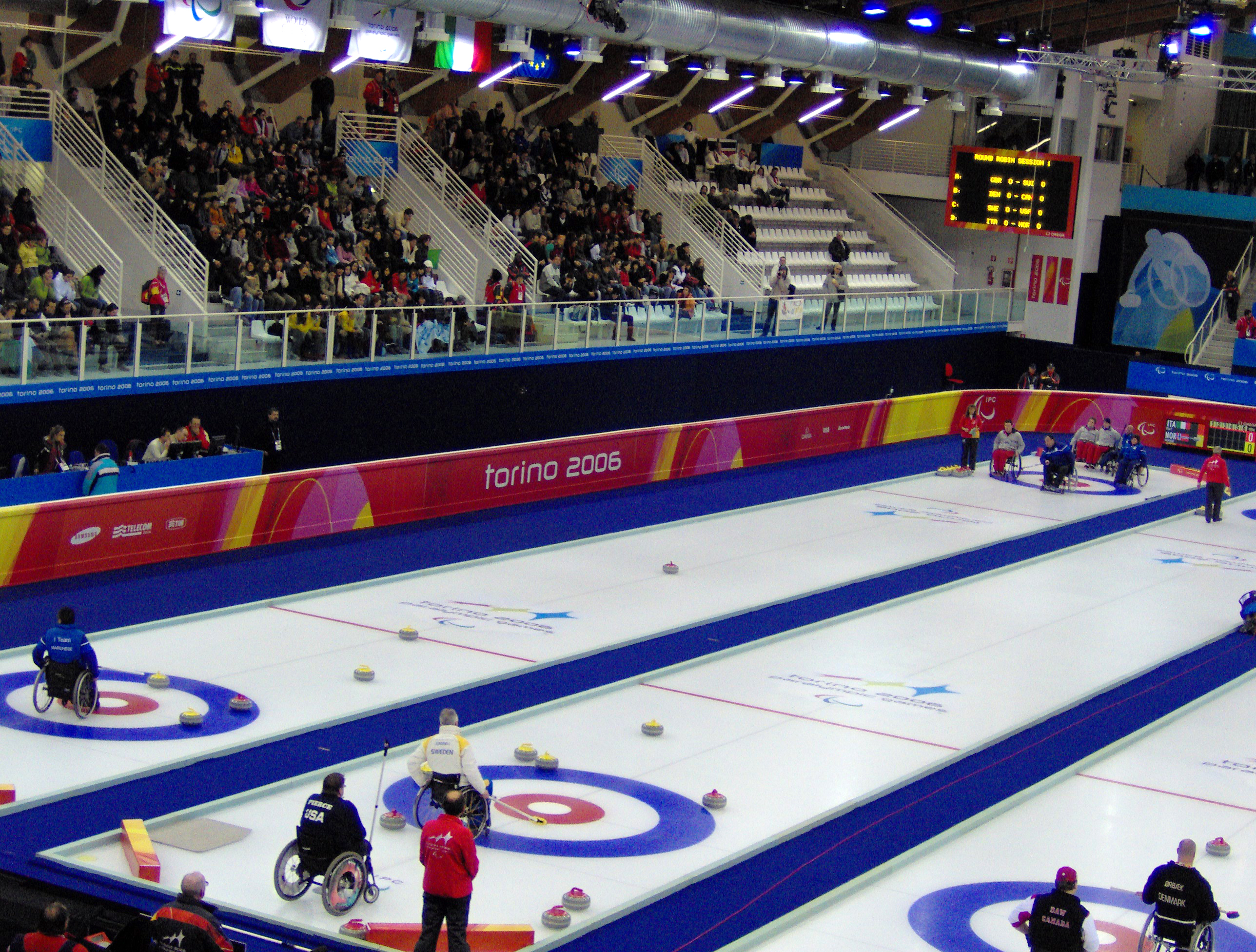 Paralympic Curling in Pinerolo (IX Paralimpics Winter Games Torino 2006)